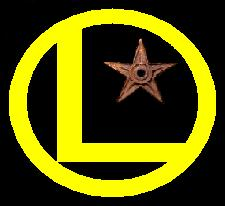 A new barnstar for Wikipedia incorporating the "Original barnstar" image as a part of a design created by myself in paint and based on the Legion of Super Heroes logo, intended for use as an award for others for outstanding work on Legion related Wikipedia articles.